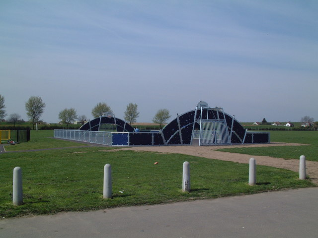 Ashford Park. This recreation ground contains a fenced multipurpose ball court.